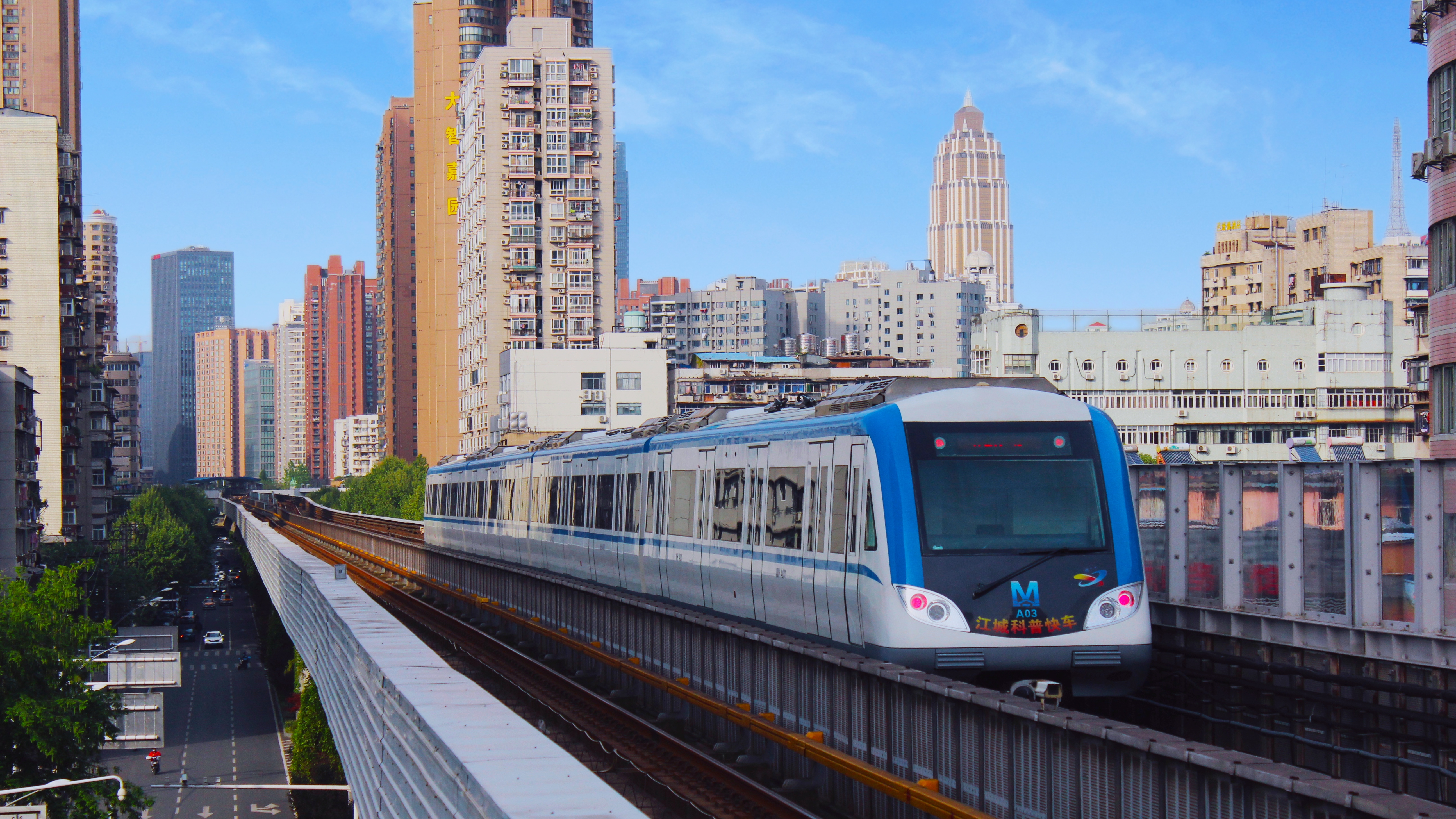 Train of Wuhan Metro Line 1 leaving Xunlimen station for Dazhi Road station